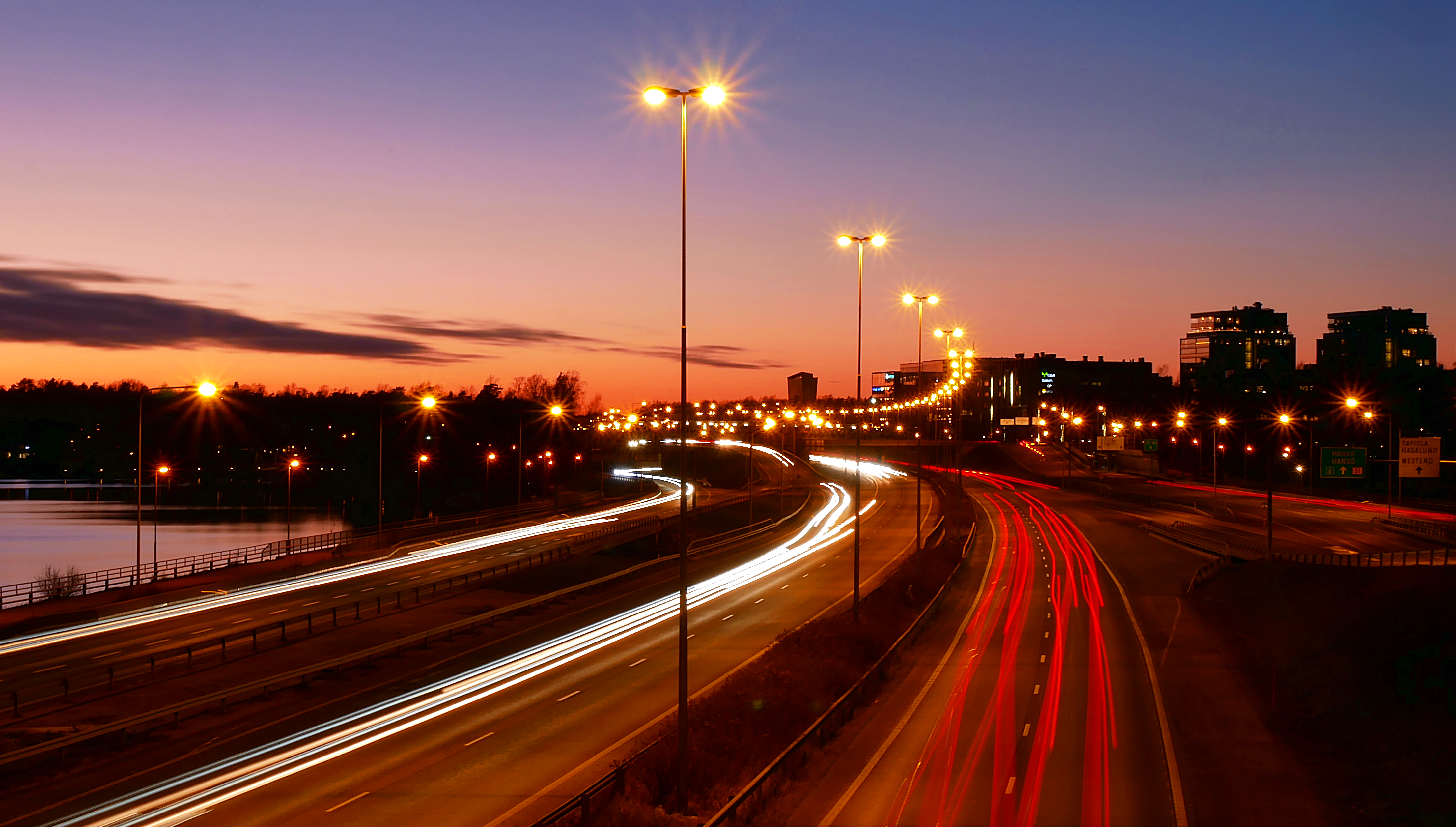 It's late Fall and the night is falling. You can see the expressway "Länsiväylä" passing through southern Espoo, by the Gulf of Finland (on the left (south)). The 90-meter high-rise "Niittyhuippu" on the background.